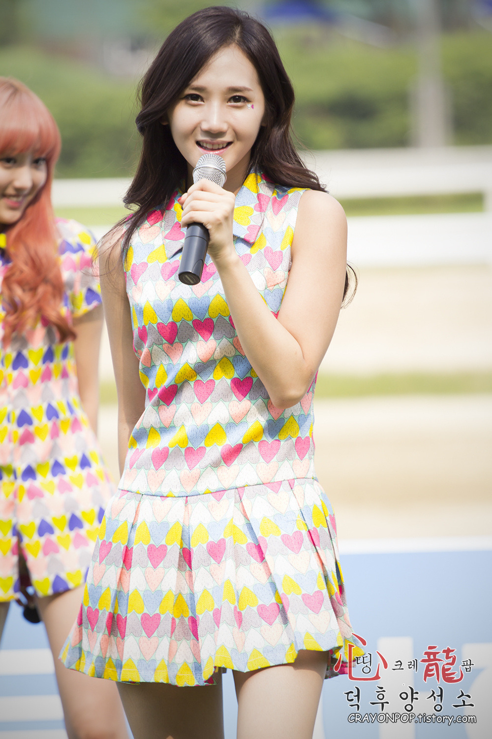 [13.06.30] 헬로비너스 직찍 서울경마장 by 심띵